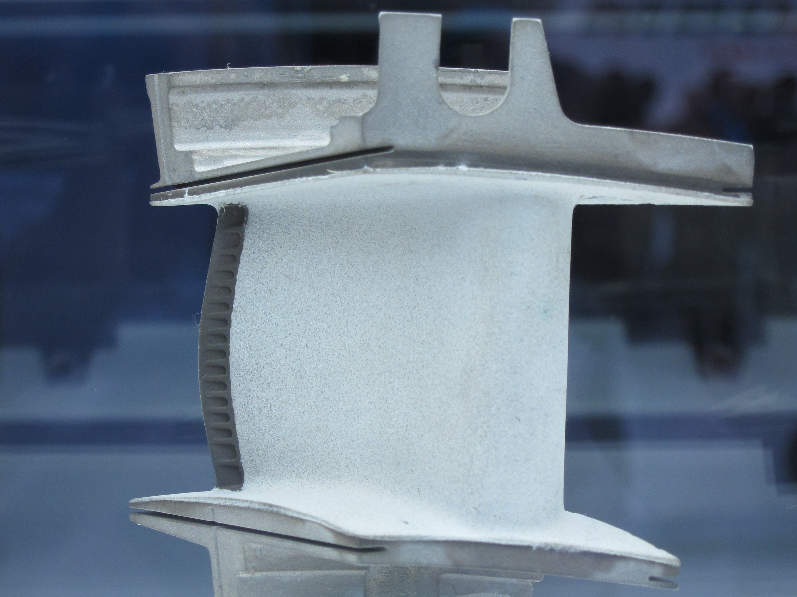 A nozzle guide vane seen after atmospheric plasma spraying of the thermal barrier coating This is one of ten blade samples showcasing the repair process developed by MTU engines to send damaged blades back into service. The blades were on display at the Paris Air Show 2013; they are high-pressure internally-cooled turbine nozzle guide vanes on the V2500 engine.